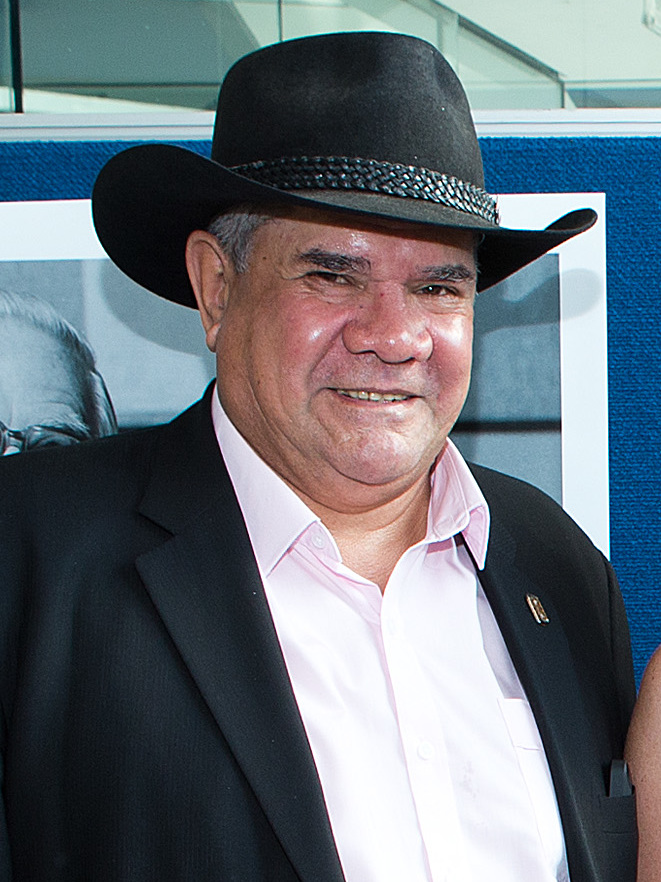 Mick Dodson at the launch of the ANU's National Centre for Indigenous Genomics in 2014